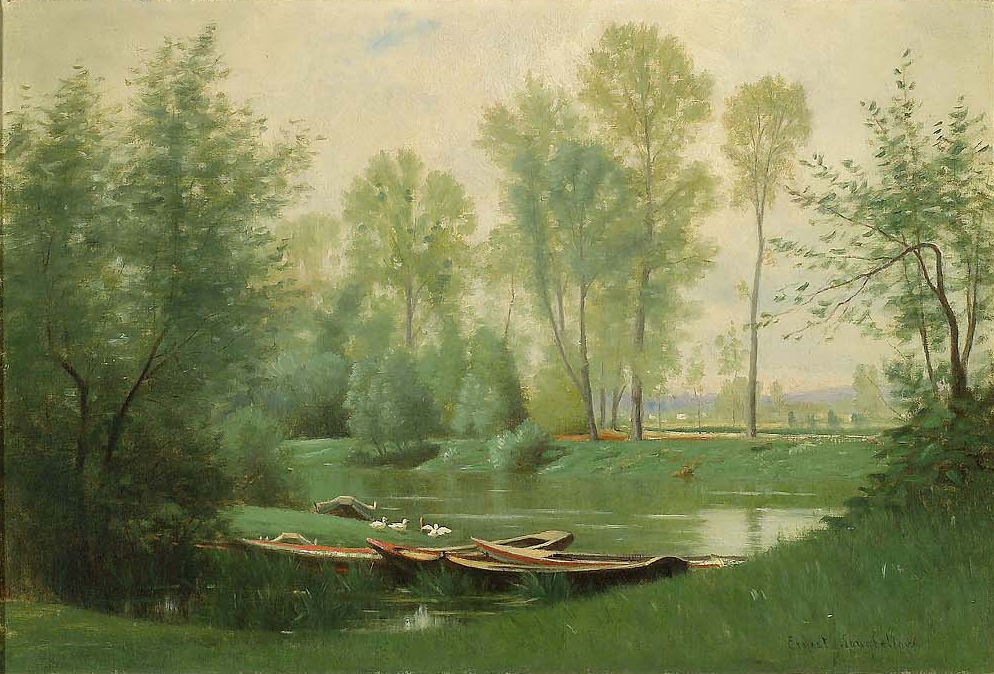 The Seine; about 1880. By Ernest Wadsworth Longfellow, American, 1845–1921. Oil on canvas. Museum of Fine Arts, Boston